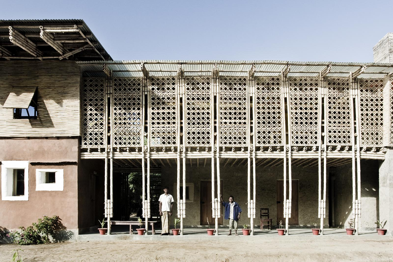 Desi training centre, Haripur, Rajshahi, Bangladesh, designed and completed by German architect Anna Heringer.